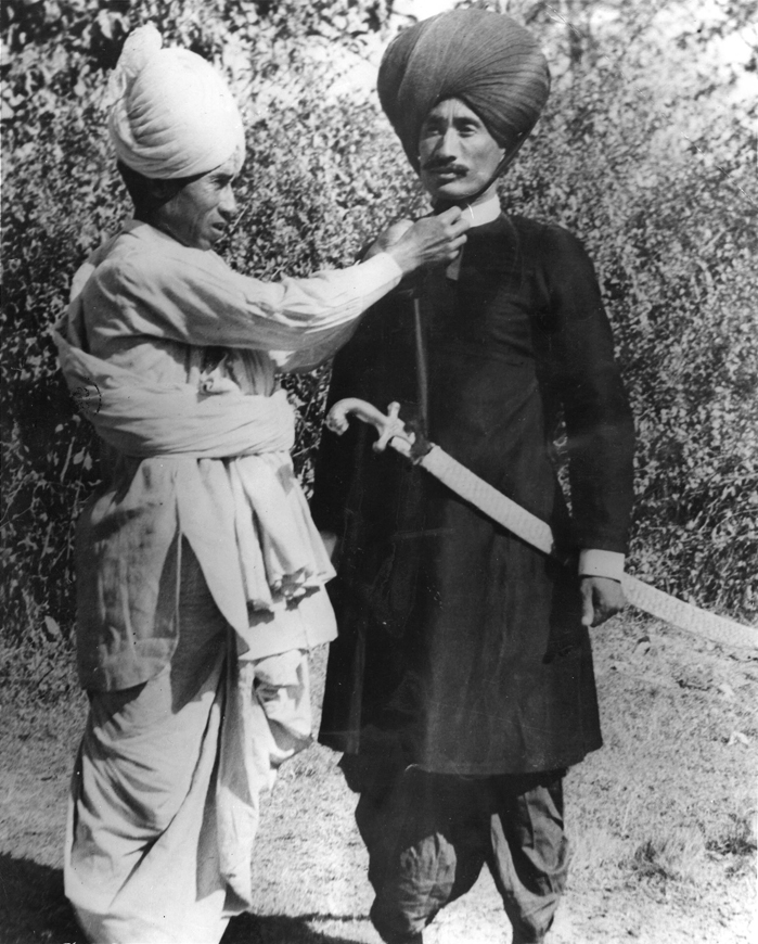 Description: Finishing touches to the outfit of the Prime Minister of Manipur in preparation for the coronation of the new Maharaja Bodh Chandra Sing. Photograph taken by Cecil Beaton for the Ministry of Information. Date: 1944 Our Document Reference: INF 14/446/4 This image is from the collections of The National Archives. Feel free to share it within the spirit of the Commons. For high quality reproductions of any item from our collection please contact our image library.